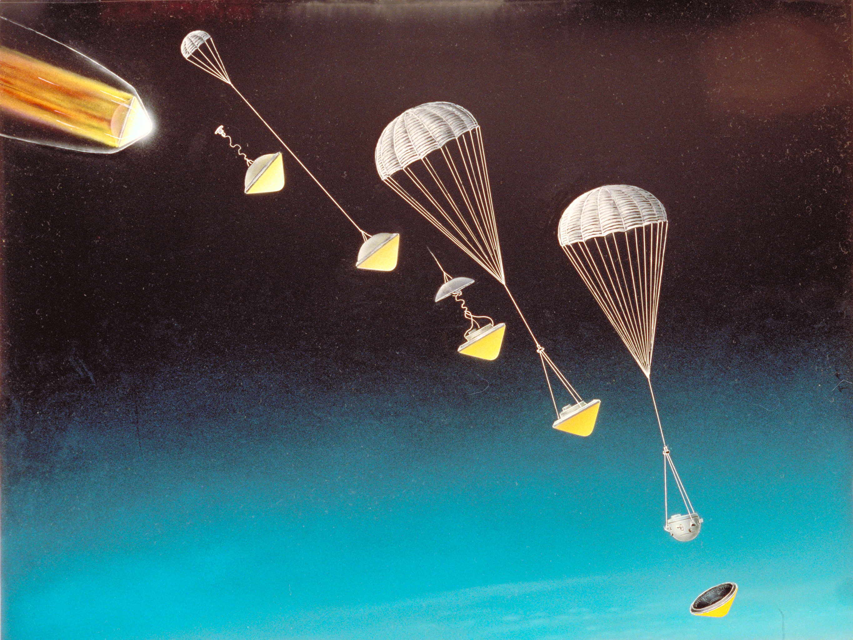 Jupiter Mission: Galileo Entry Probe Artwork (descent and separation)